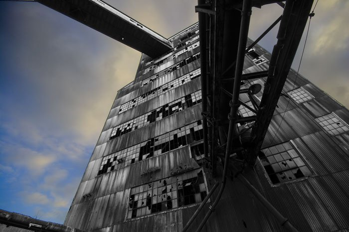 St. Nicholas Coal Breakers exterior shot.